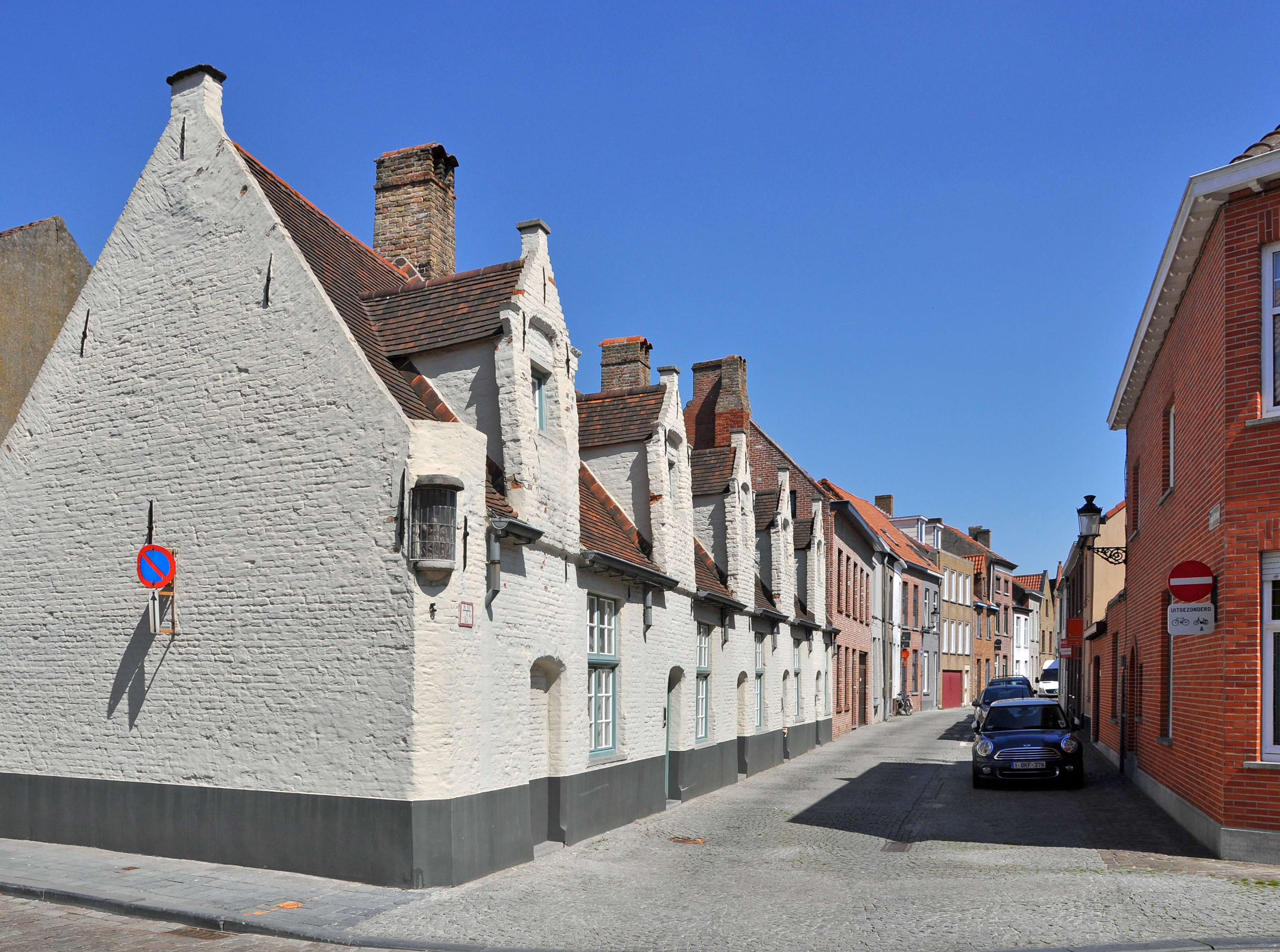 Bruges (Belgium): Noord-Gistelhof (street)